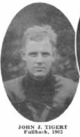 John J. Tigert in 1903, fullback for the Vanderbilt Commodores